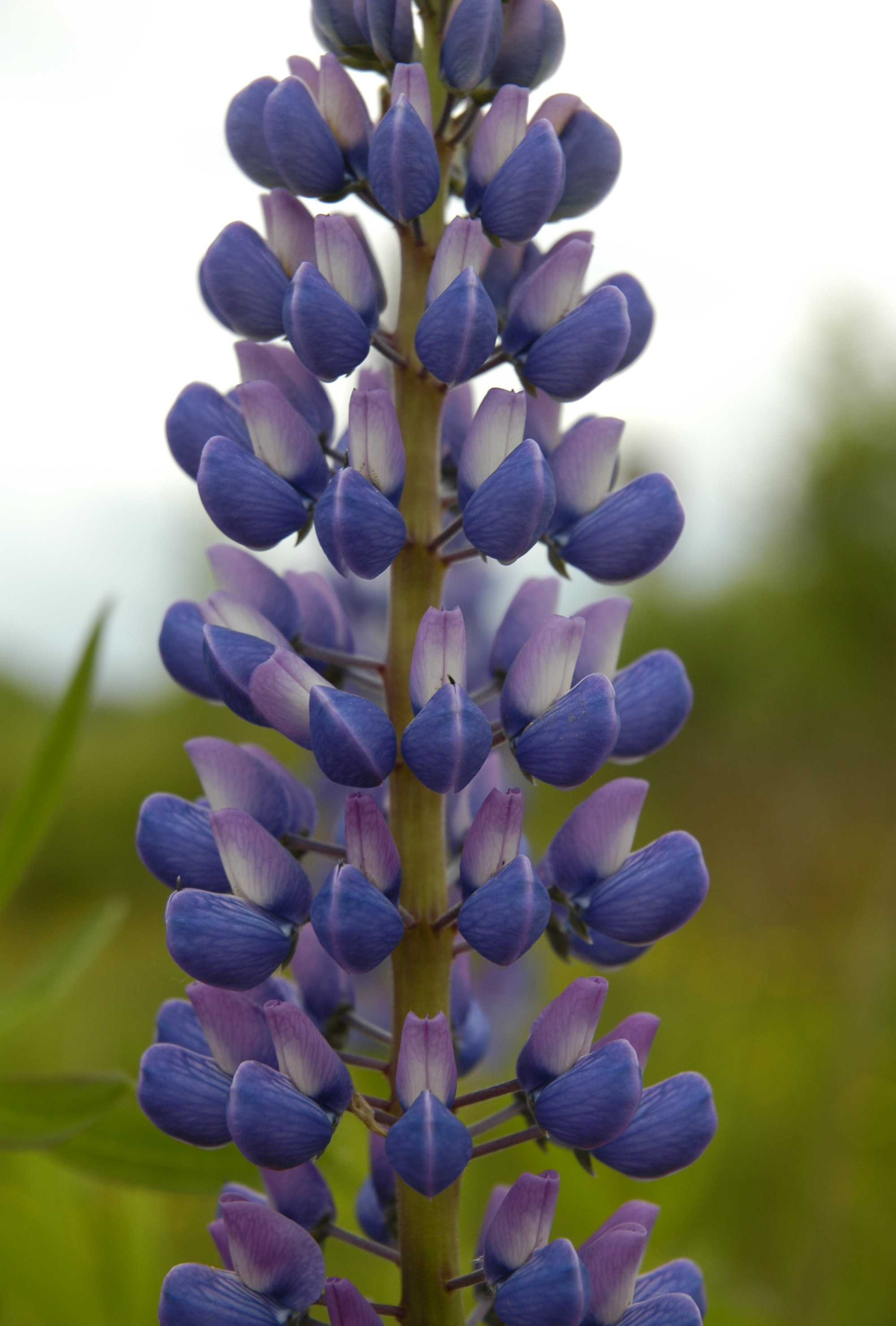 Lupinus flowering plant